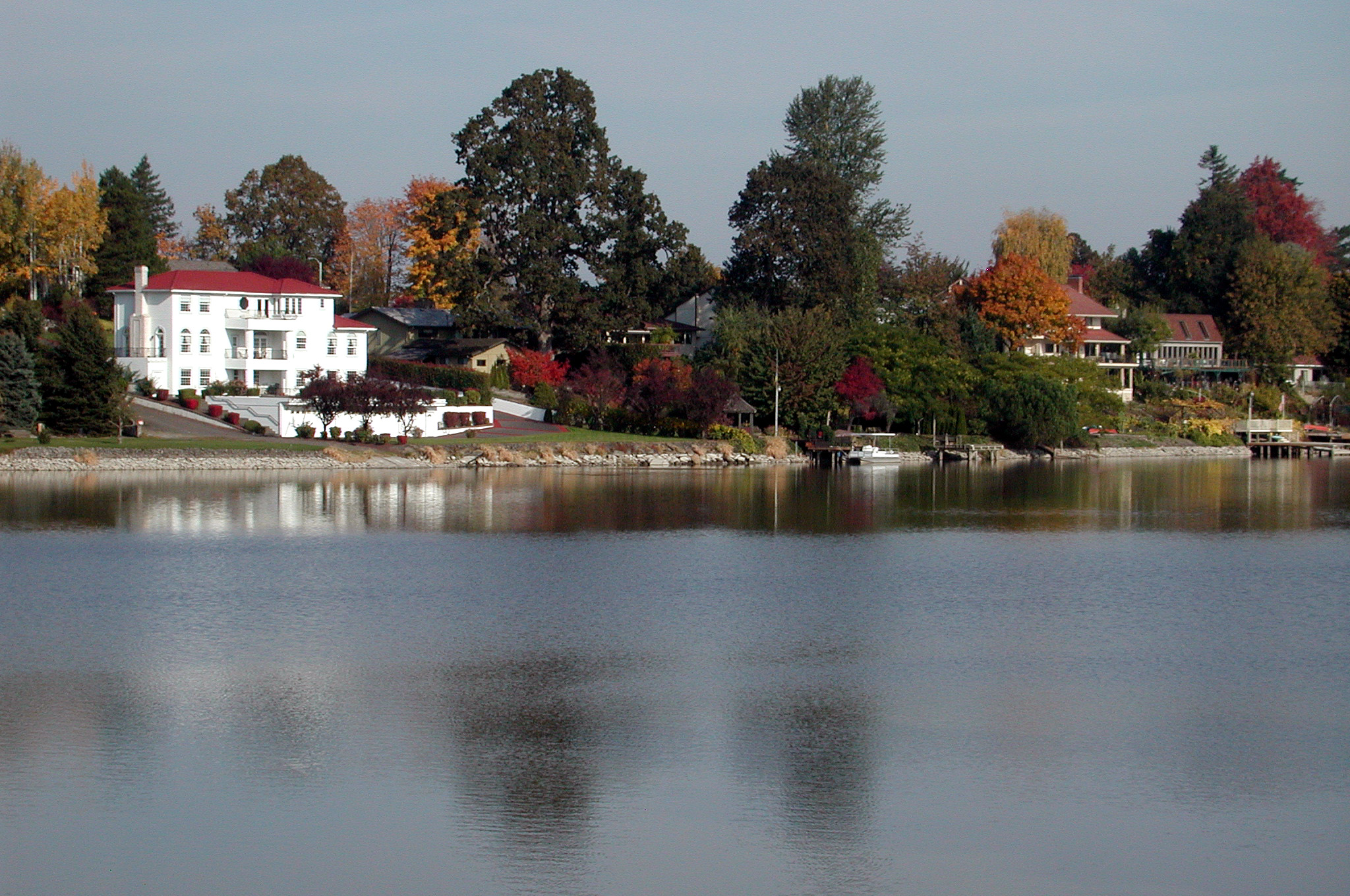 Fairview Lake in Fairview, Oregon, looking northeast from a bridge over the Columbia Slough at the west end of the lake.